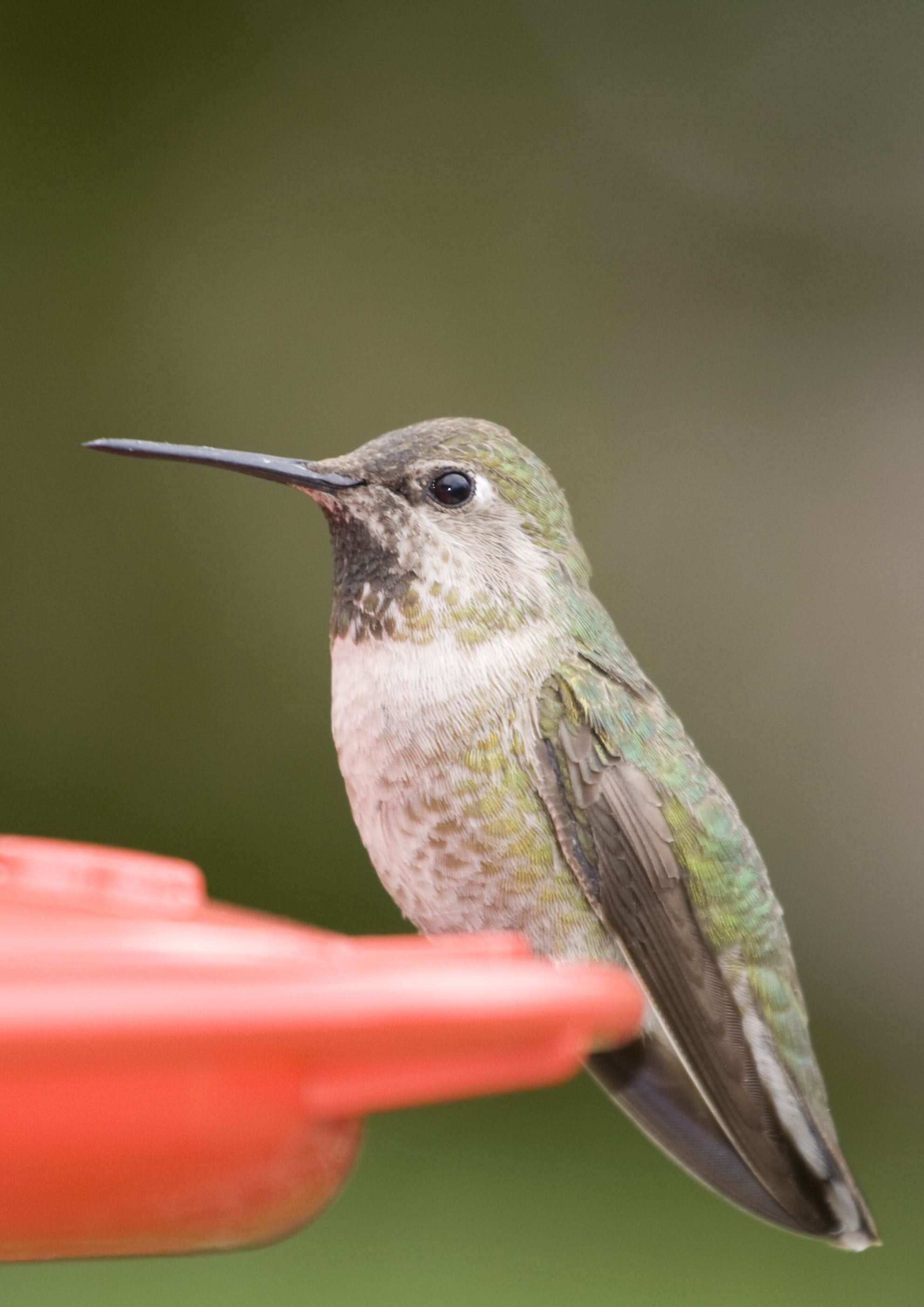 Calypte anna female, San Diego, California.